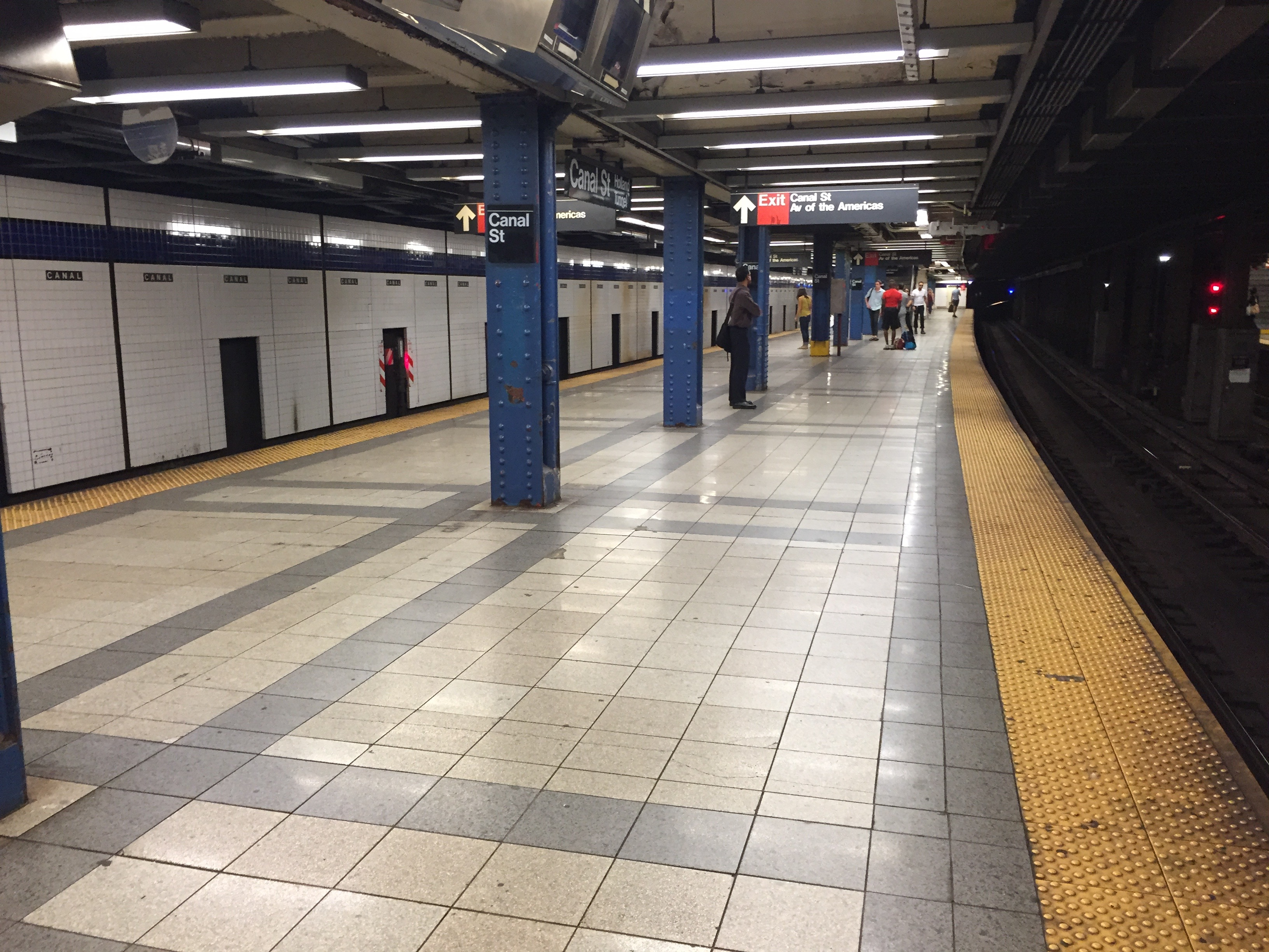 Downtown A/C/E platform at the Canal Street station